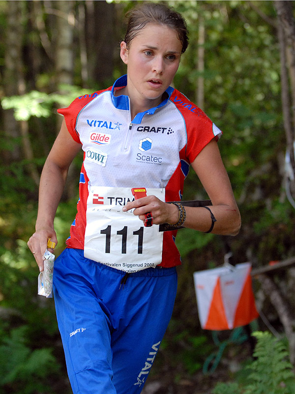 Marianne Riddervold at the World Cup event at Siggerud (Oslo, Norway) 2008.